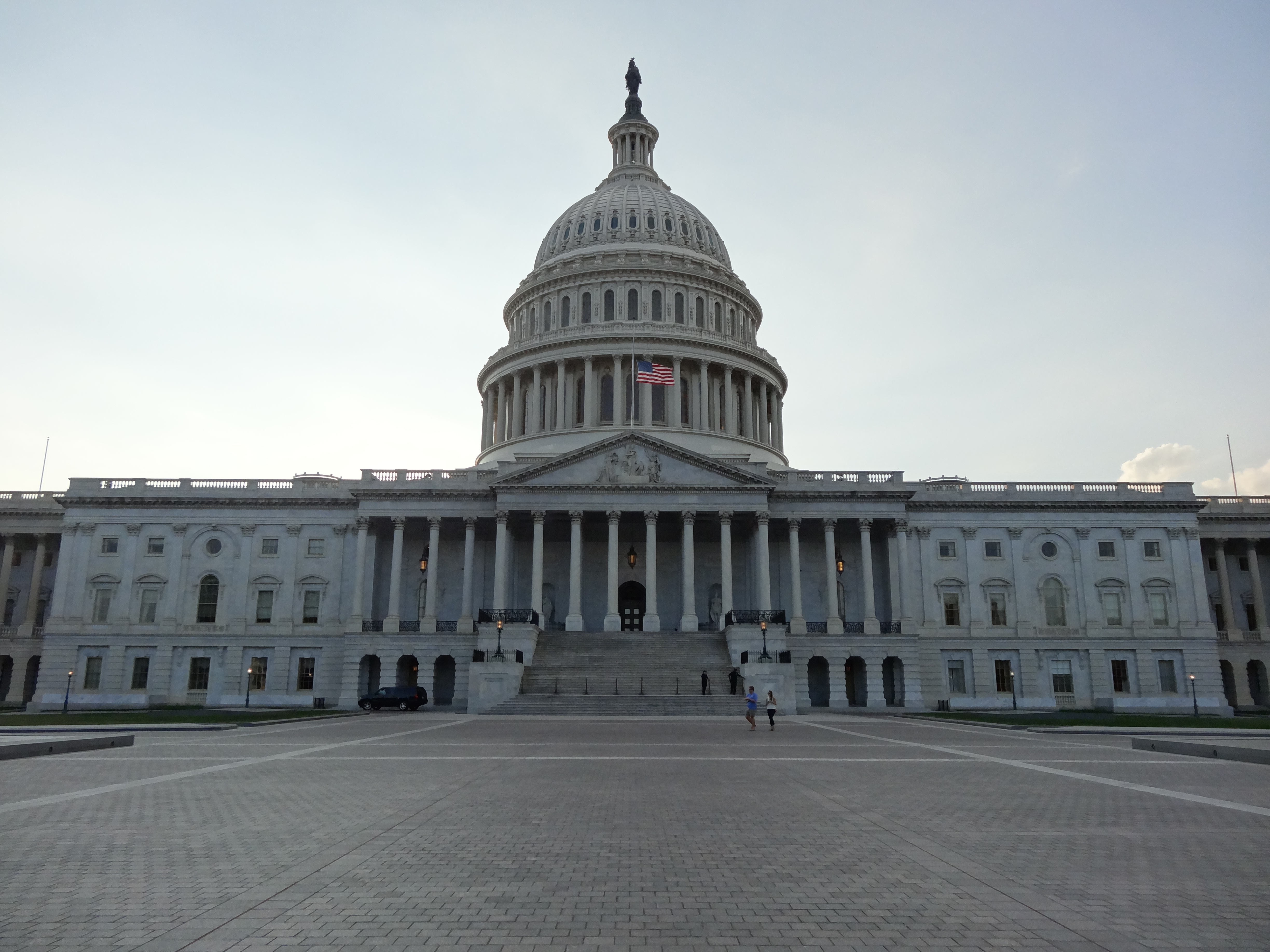 East side of the US Capitol during the US government shutdown of 2013